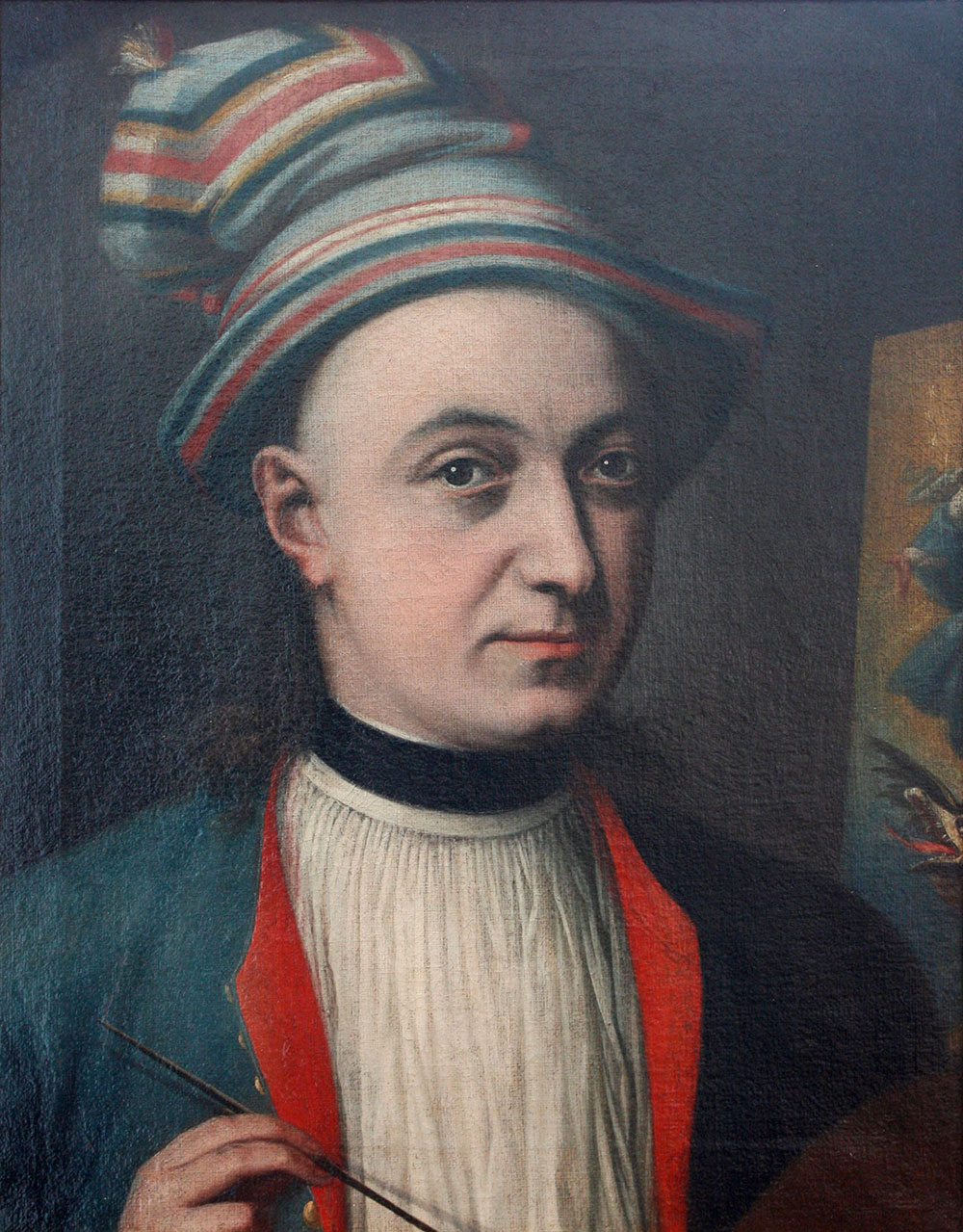 Self portrait